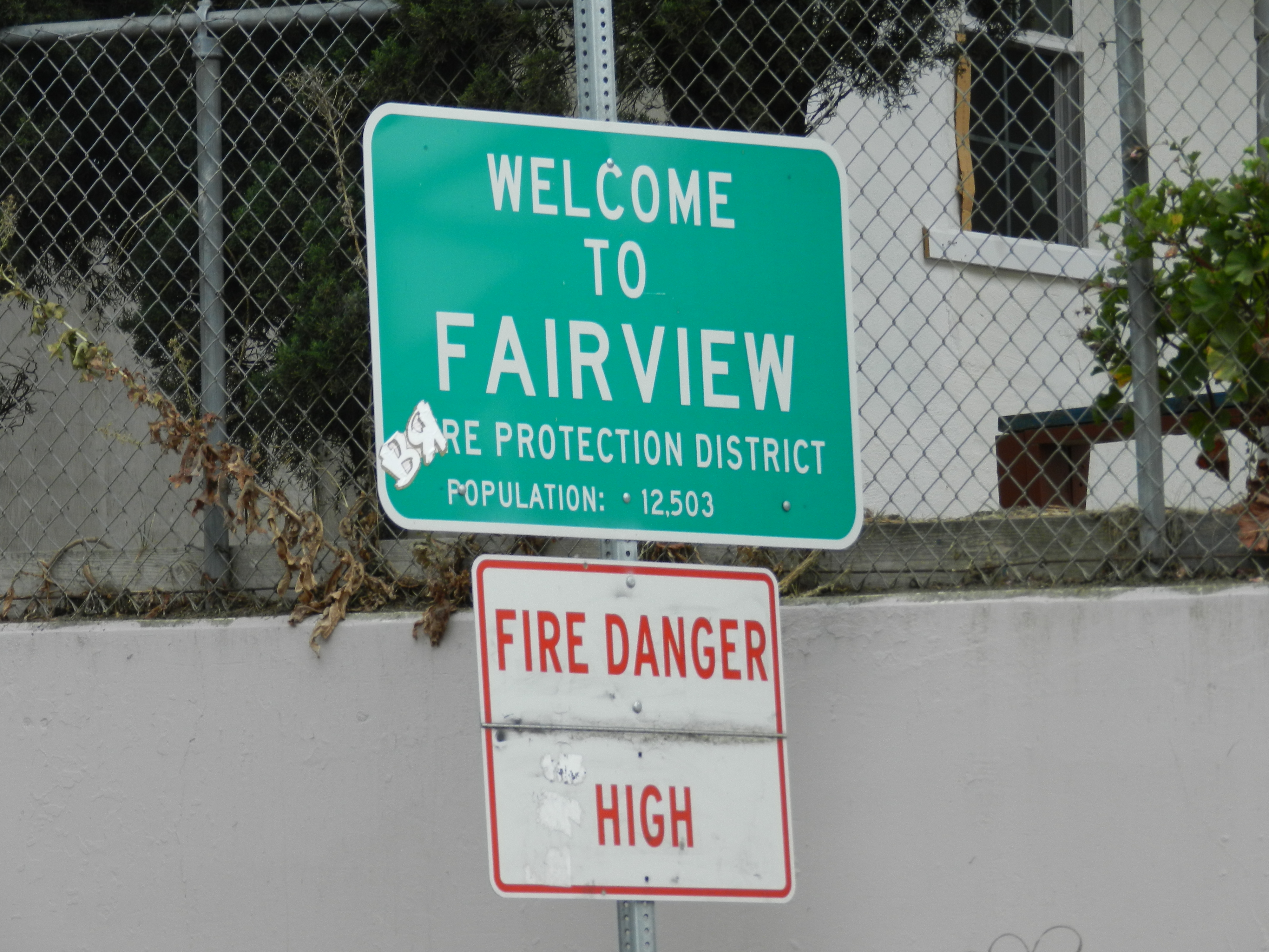 entrance to Fairview, California, also the entrance to the fairview fire protection district